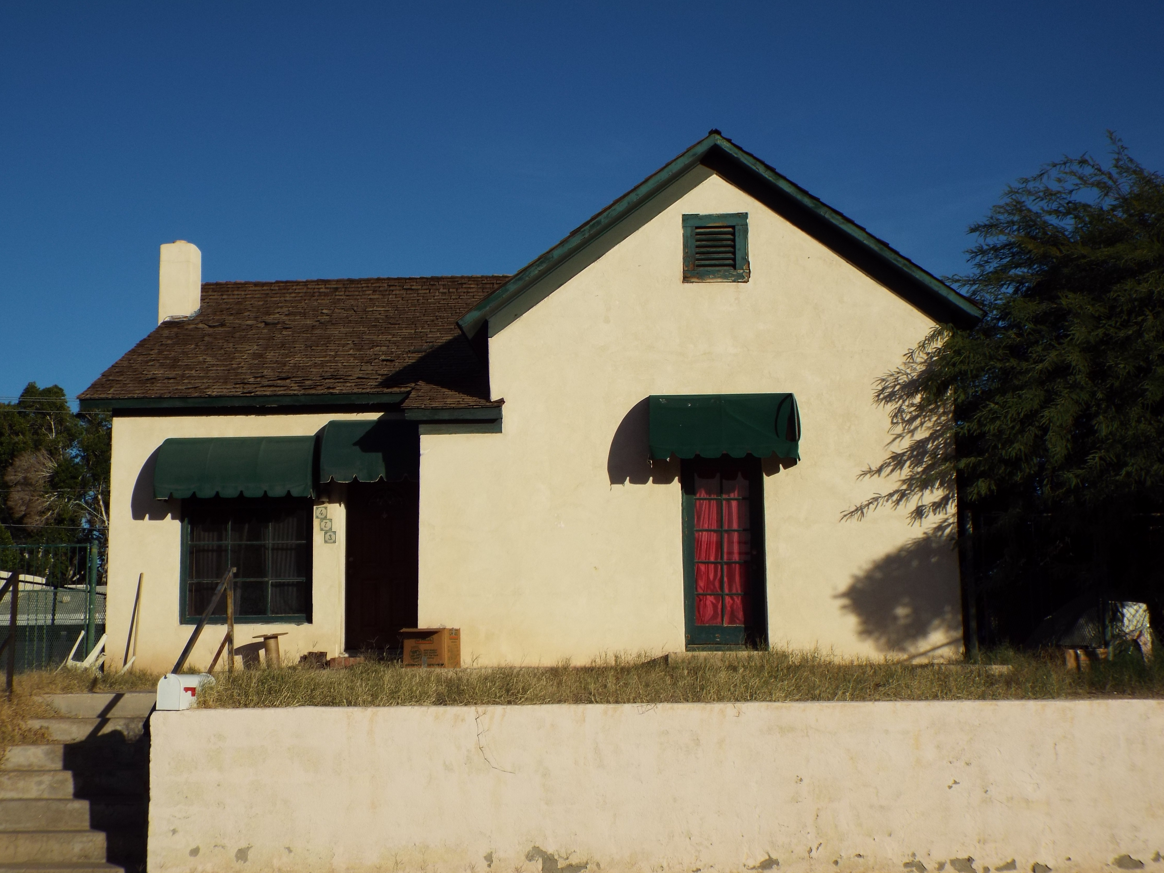 The Balsz House - Built in 1875 and located at 475 2nd Ave. in Yuma, Az. It was listed in the National Register of Historic Places on December 7, 1982.